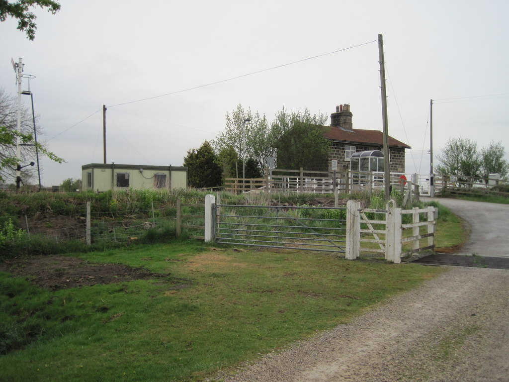 Wilstrop Sidings railway station (site), YorkshireApparently this was a station that opened on market days only, and closed in 1931. Located on the York to Harrogate line. View north east from the road.